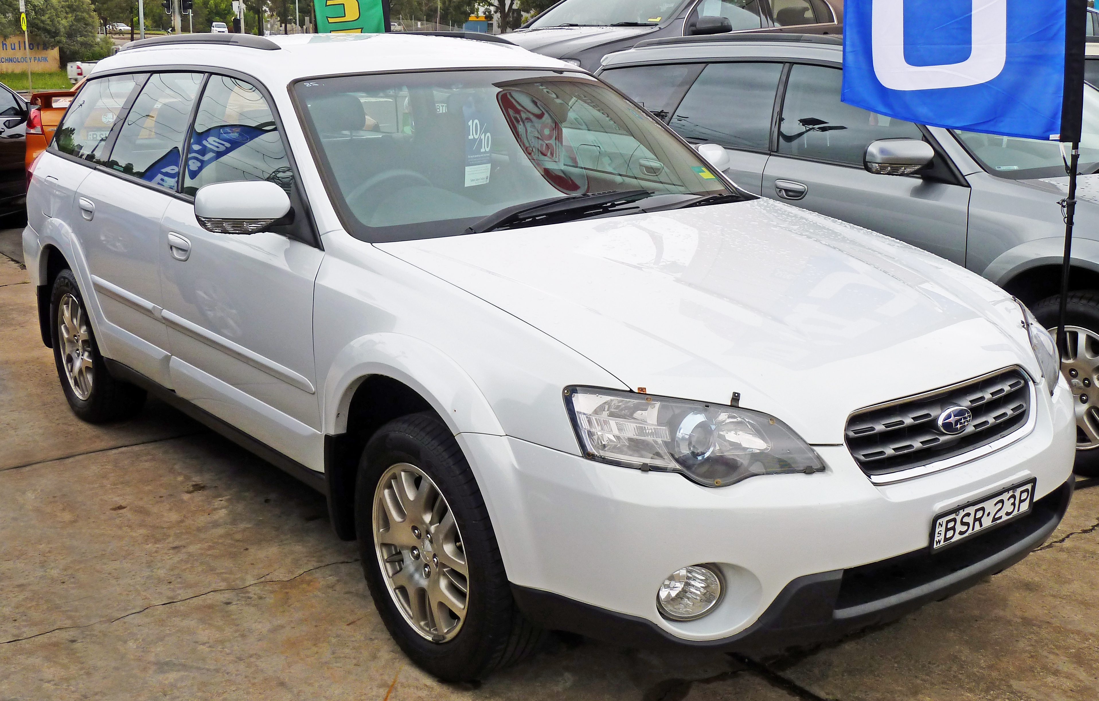 2004 Subaru Outback (MY04) 2.5i station wagon. Photographed at Suttons Subaru, Chullora, New South Wales, Australia.